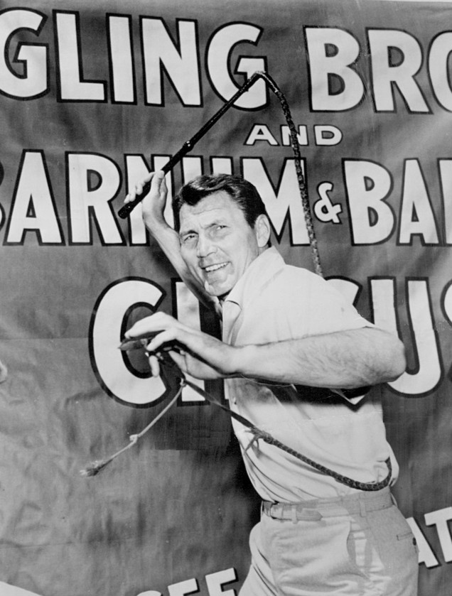 Photo of Jack Palance from the television program The Greatest Show on Earth. Palance played the Ringmaster, Johnny Slate, in the series. The item has no copyright markings on it as can be seen in the links above.